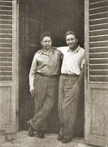 Da sinistra, Dylan Thomas e Luigi Berti